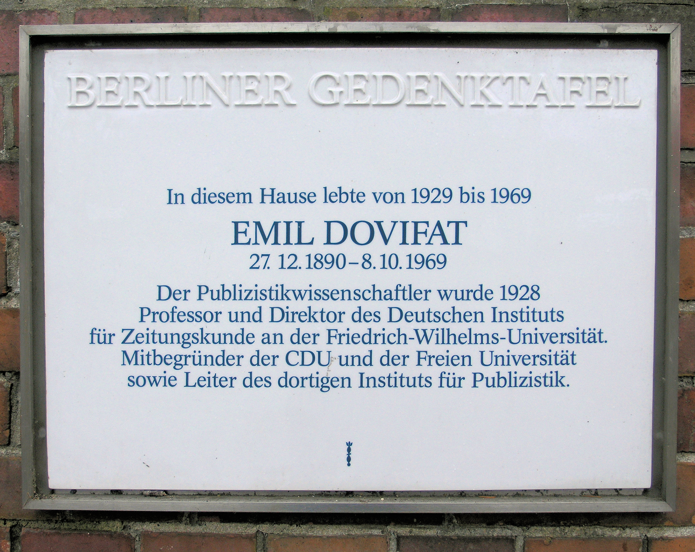 Berlin memorial plaque, Emil Dovifat, Charlottenburger Straße 2, Berlin-Zehlendorf, Germany Koordinate:52°26′8″N 13°15′53″E / 52.43556°N 13.26472°E